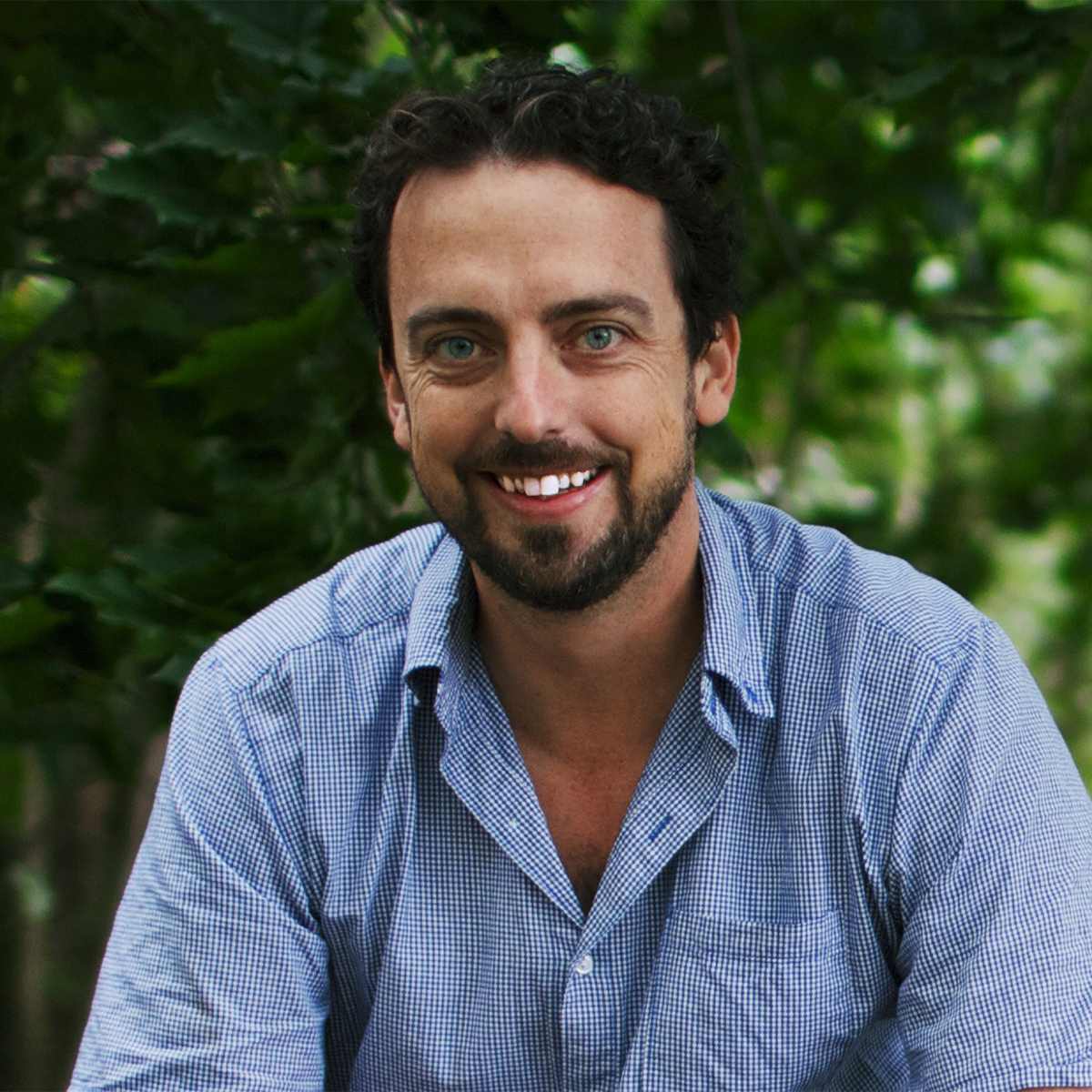 Jake Boritt, filmmaker, shot on October 6, 2012 in Gettysburg, PA.